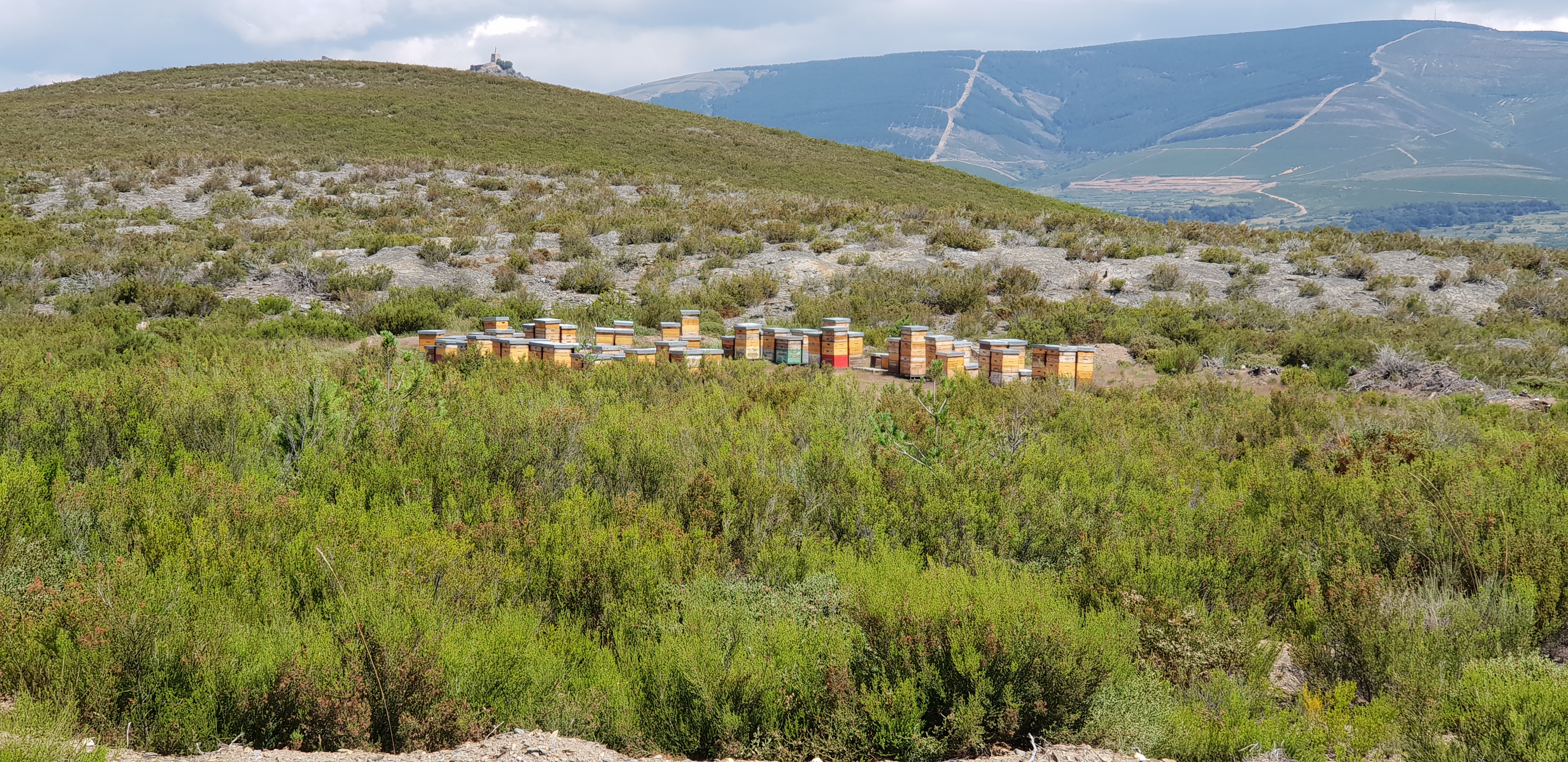 Colmenas de Valdavido